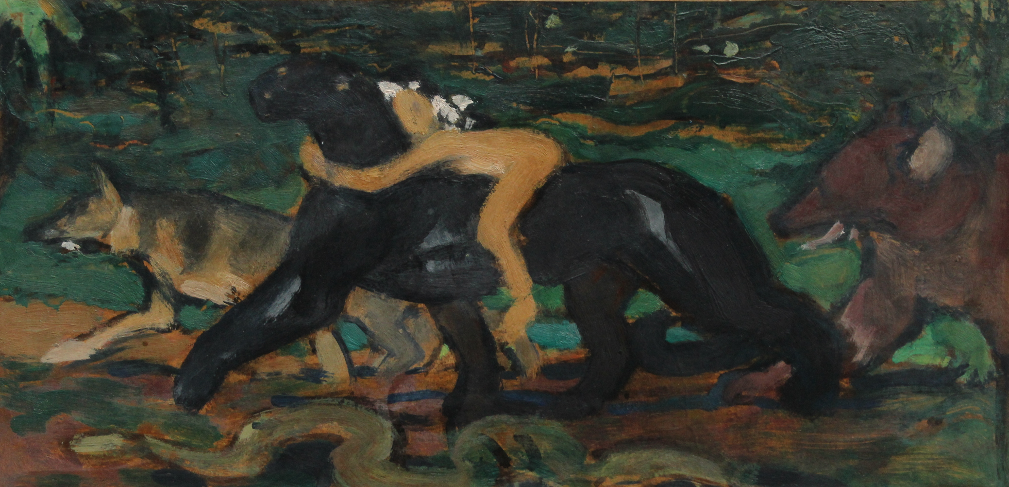 Henri Deluermoz, "Mowgli chevauchant la panthère Bagheera", oil on canvas, 1930 at the Antiquarian book and print fair in 2013 at the Grand Palais in Paris, France.